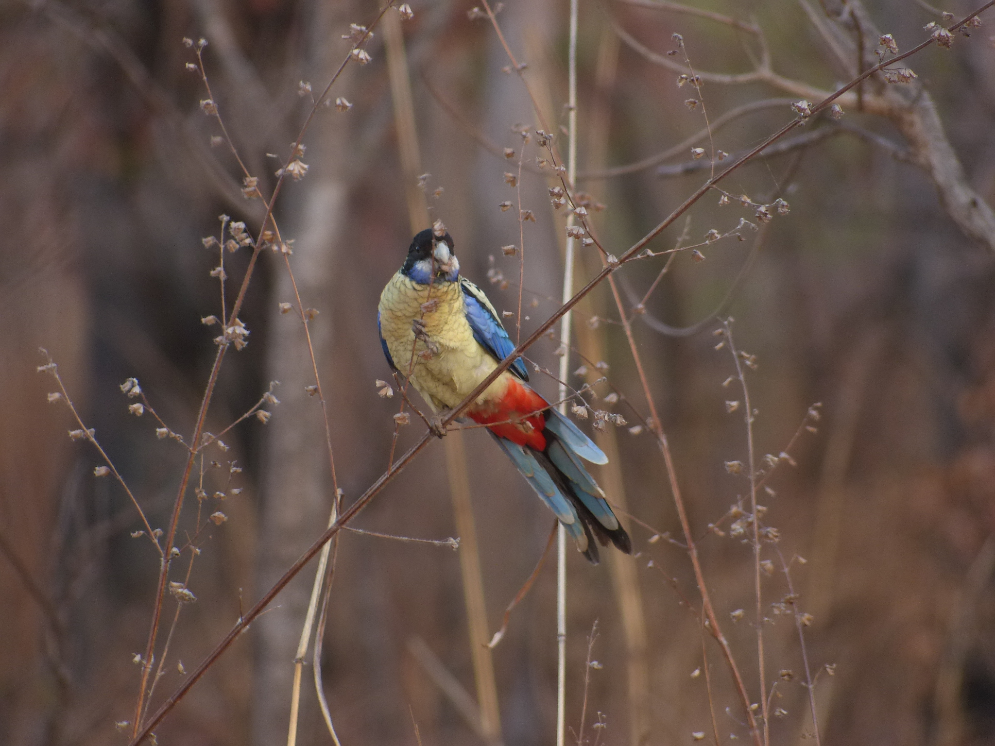 Platycercus venustus subsp. hilli